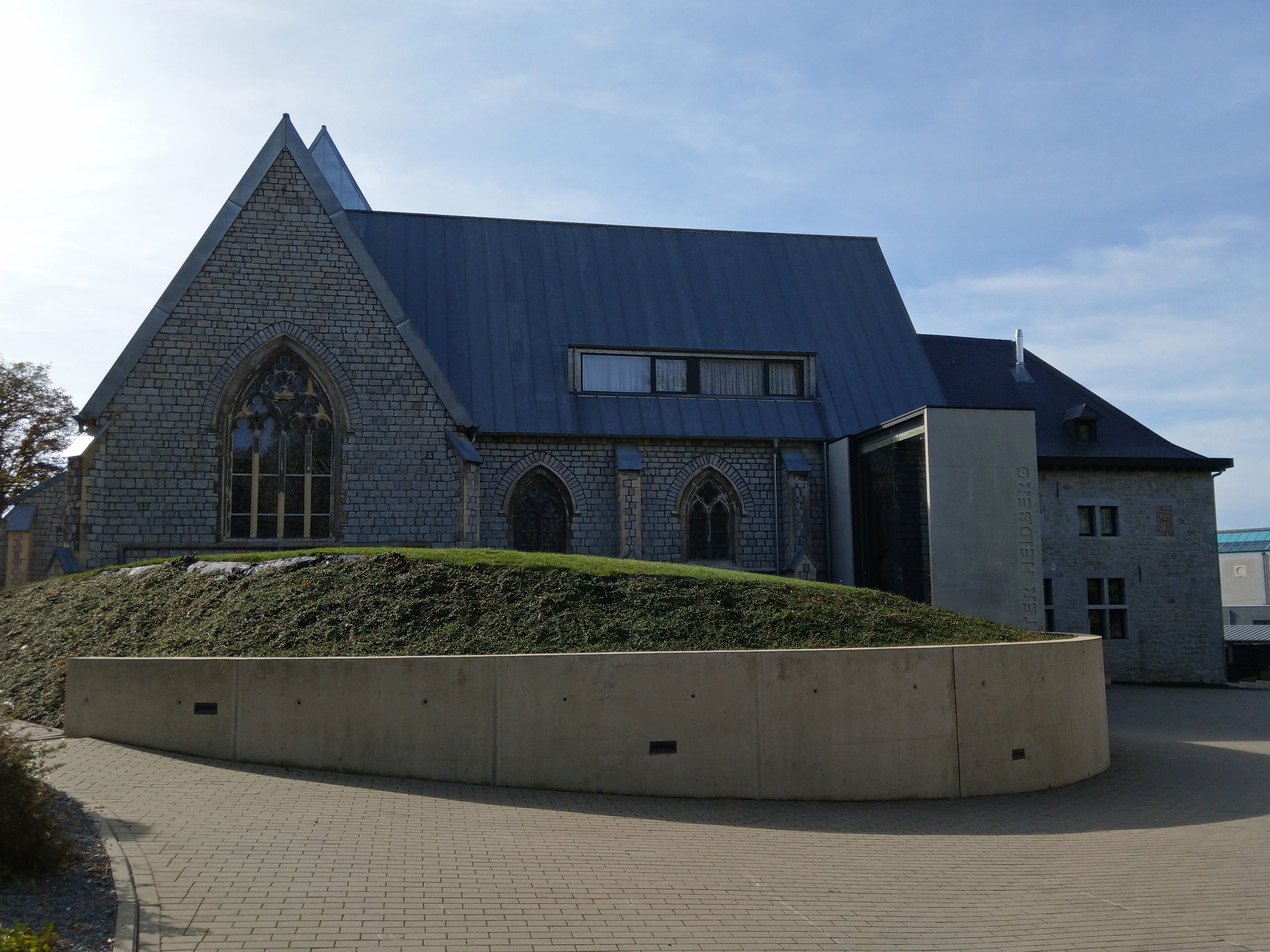 Explanations and history, see category